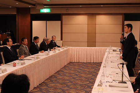 Masahiro Imamura, Minister for Reconstruction, addressed a meeting of the Council for the Reconstruction and Revitalization of Fukushima Following the Nuclear Disaster in Fukushima City, Fukushima Prefecture on January 28, 2017.